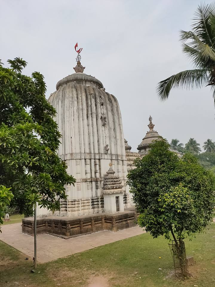 Jagannath Temple